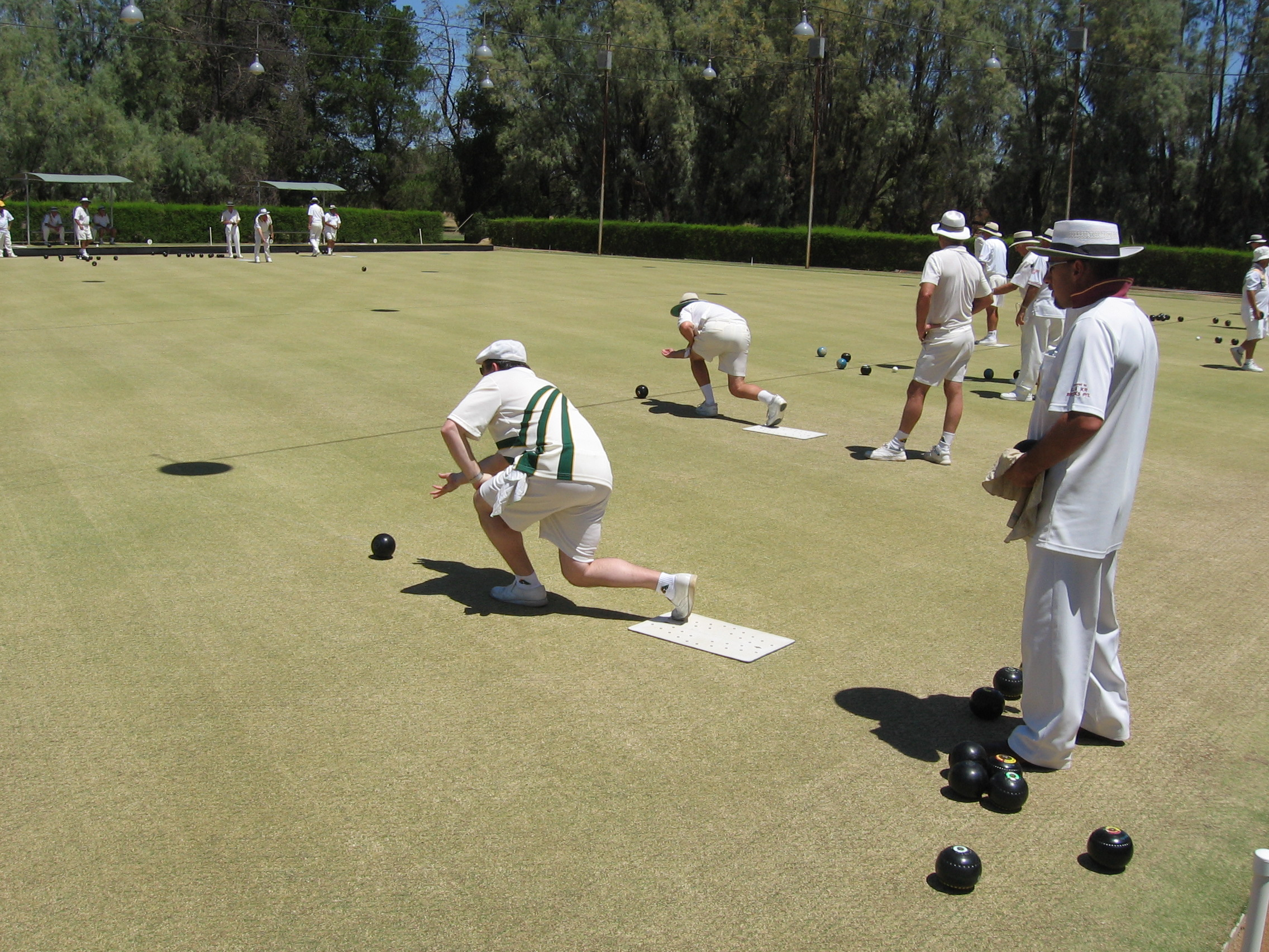 A Bowls tournament in Berrigan, New South Wales